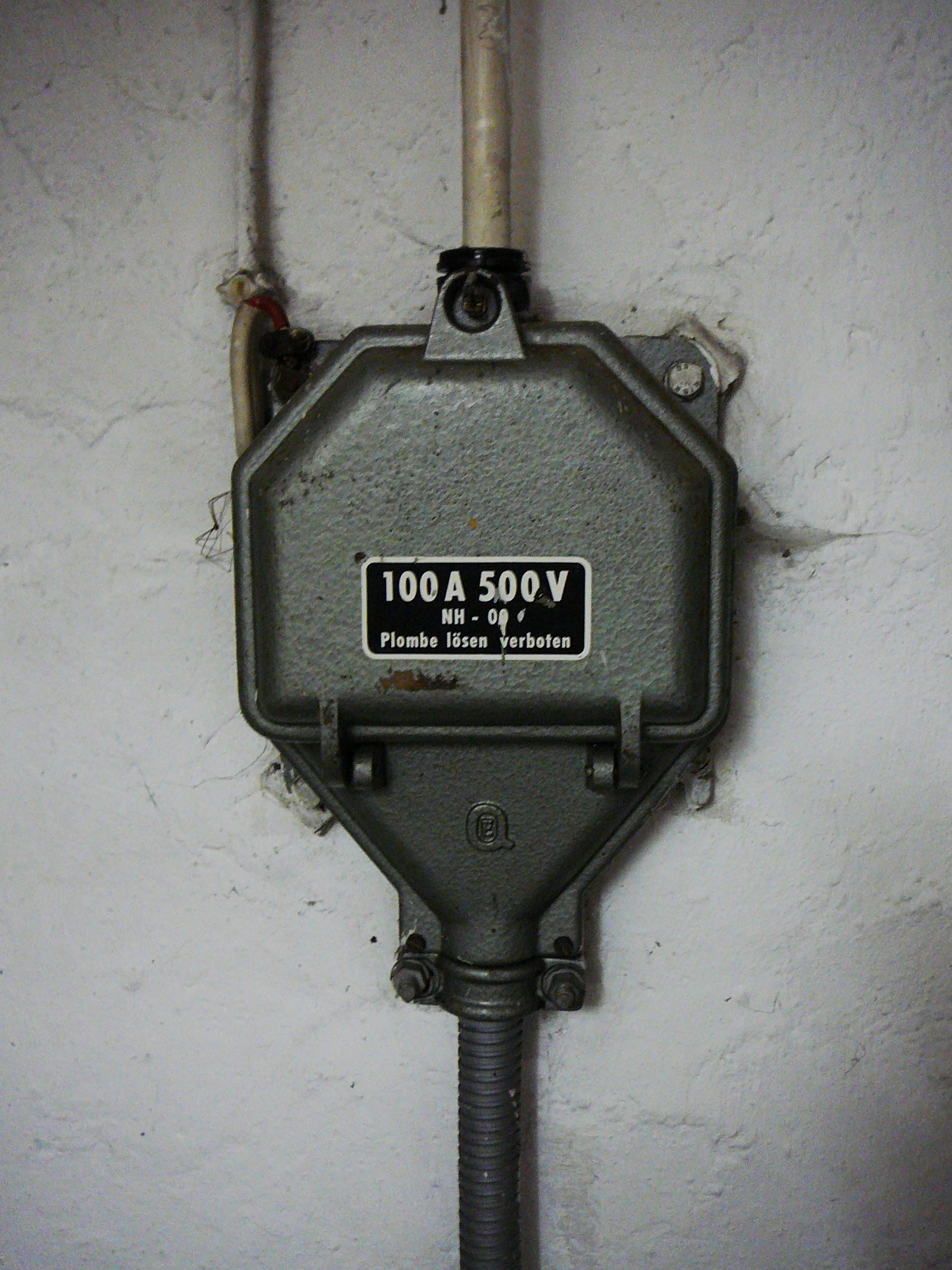 This is a german introduction device Hausanschlusskasten. The Label says 100A, 500V